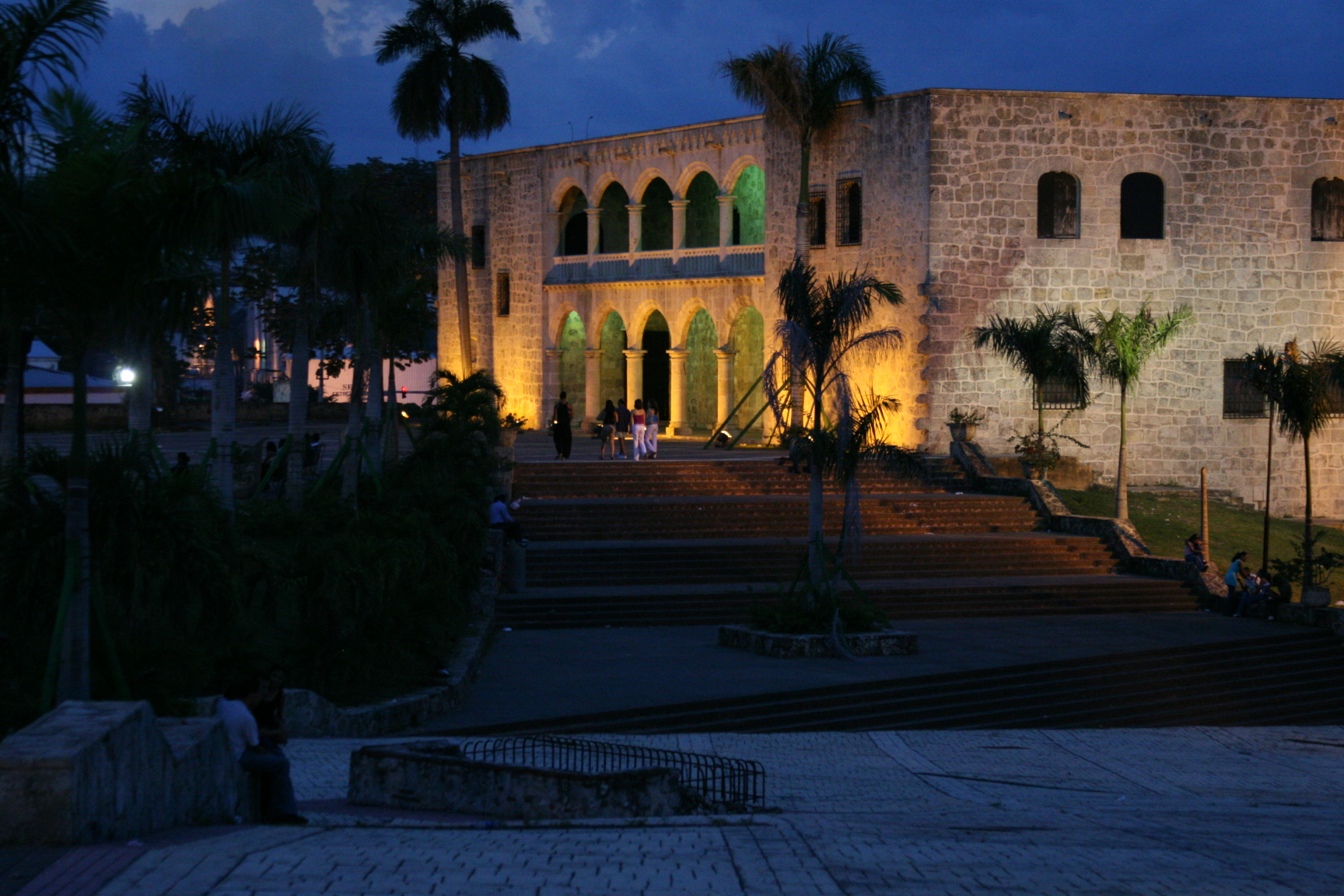 Built in 1500 by Christopher Colombus' son, Diego.